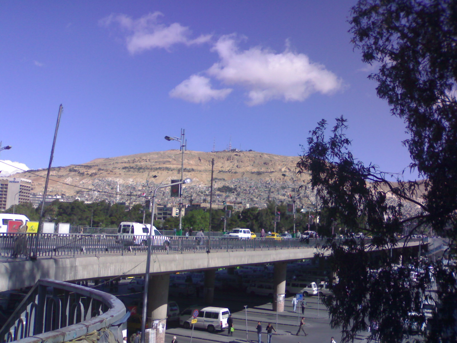 A picture of Mount Qasion of the president's Bridge in Damascus